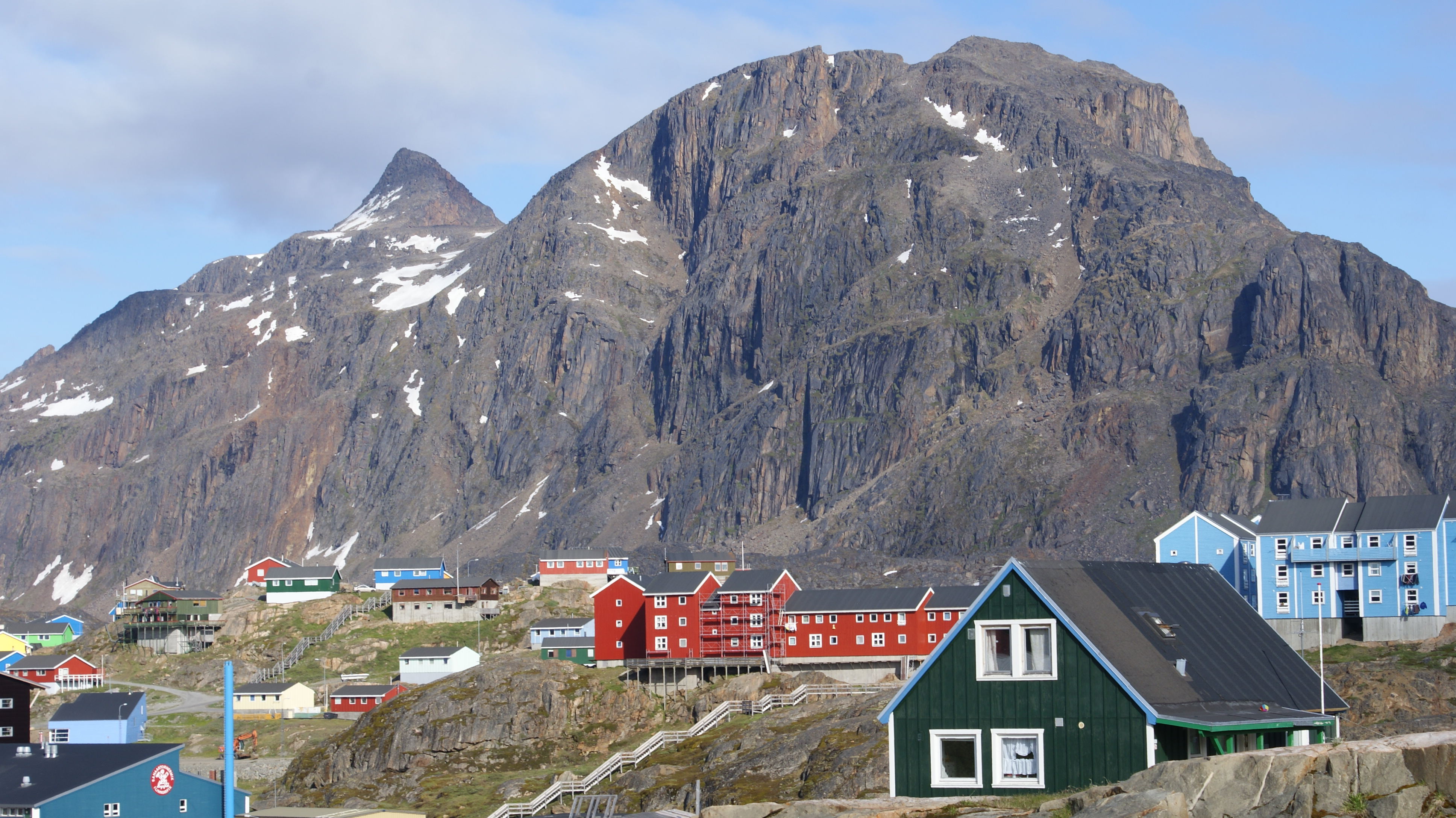 Nasaasaaq, 784m, towering over Sisimiut, Greenland. Seen from the northwest.